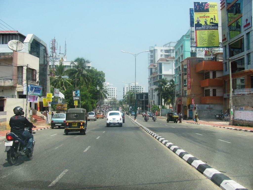 Vellayambalam-Sasthamangalam Road